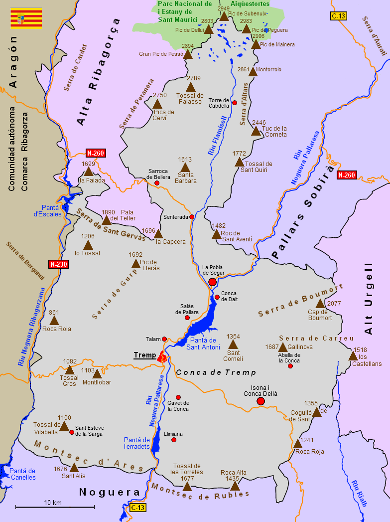 Map of the comarca Pallars Jussà, Catalonia, Spain